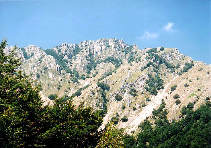 The image represents the peak Vârful lui Stan from the Mehedinţi Mountains